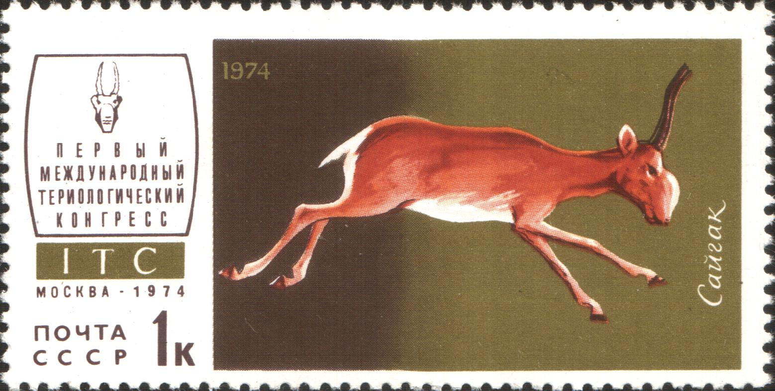 USSR stamp